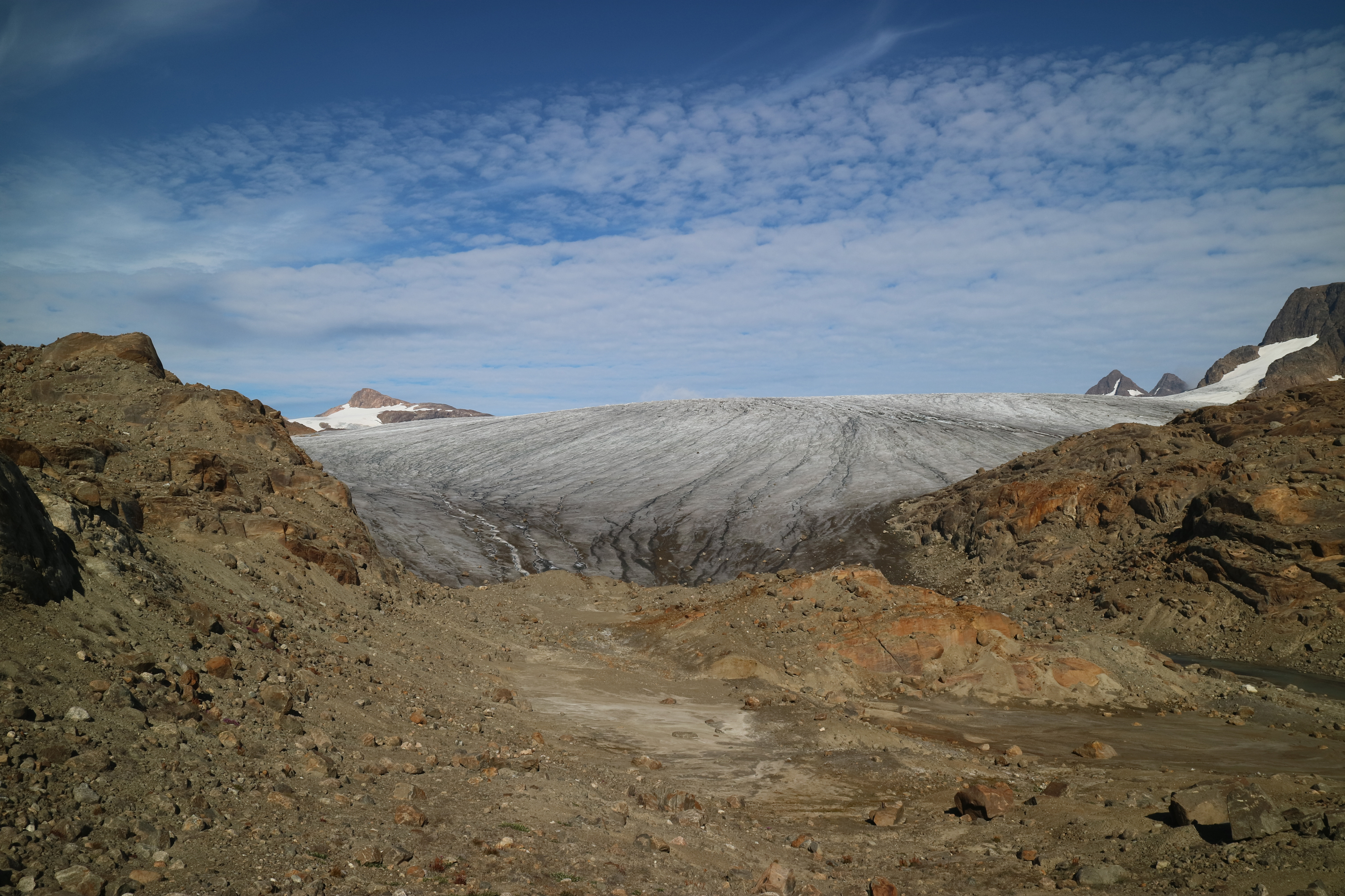 Mittivakkat glacier front